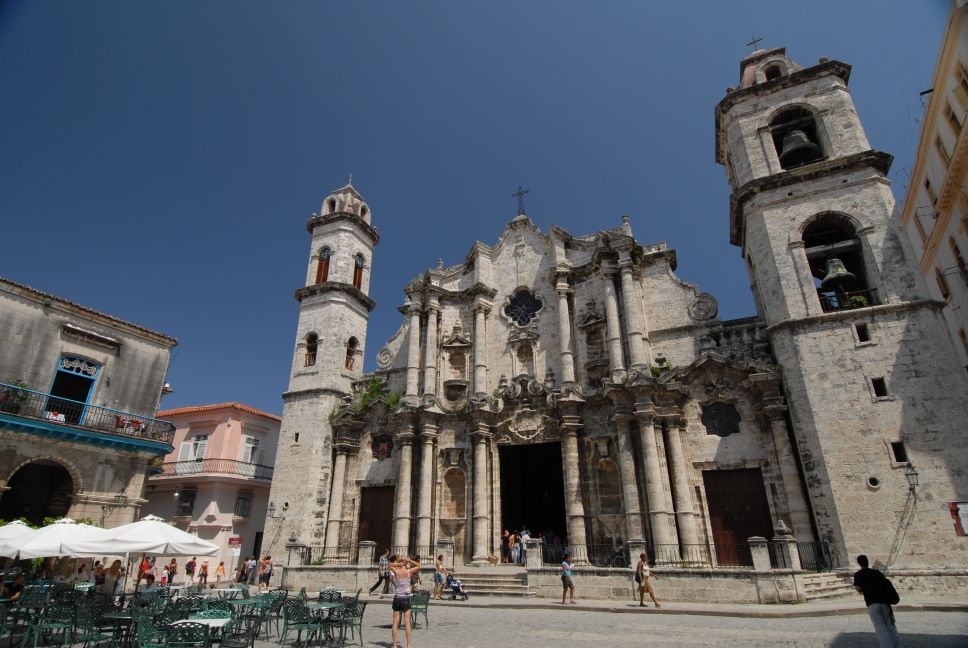 Colonial Baroque facade of Catedral de La Habana — in Old Havana, Cuba. Cuba, augustus 2006, info in de Metadata